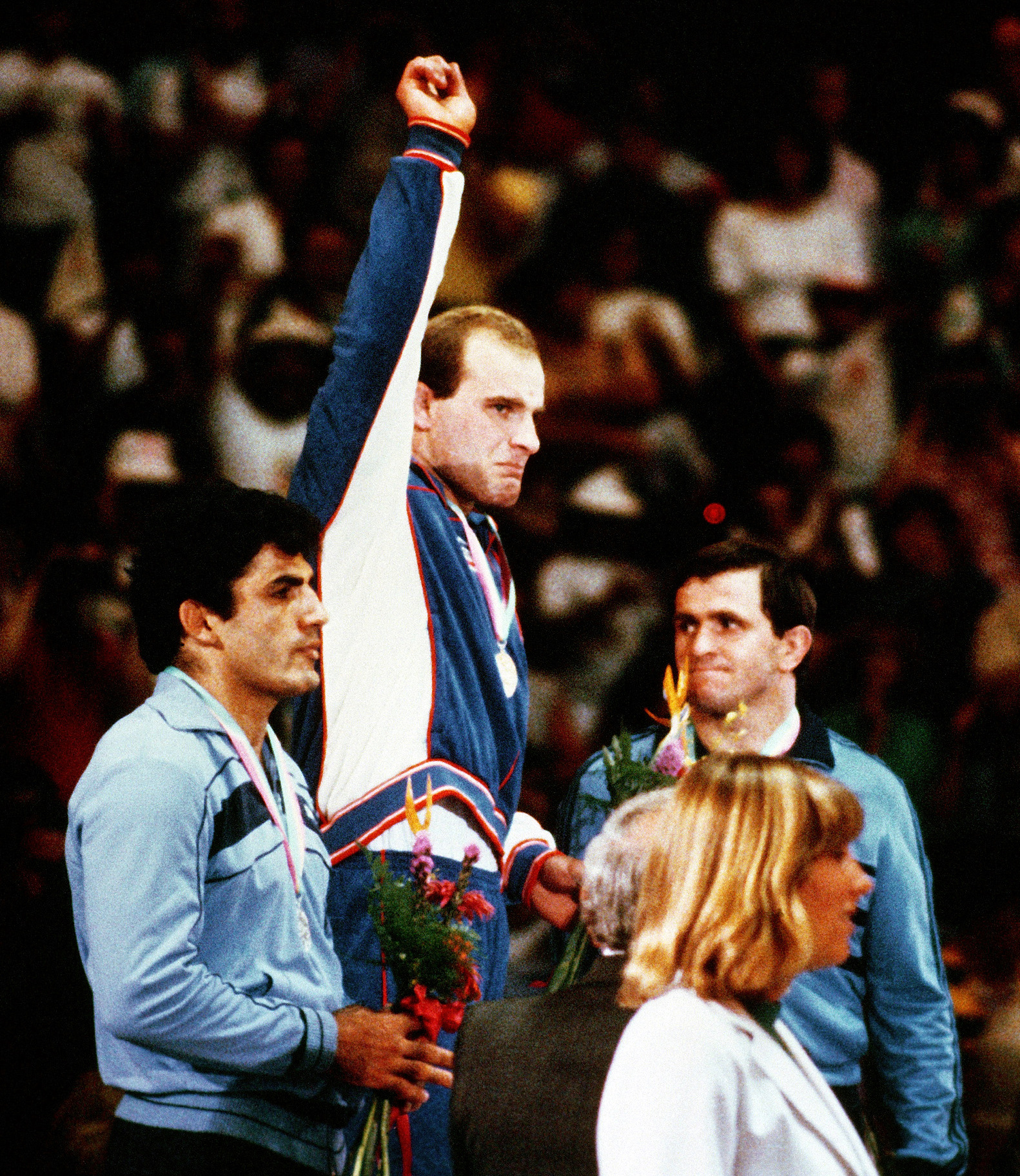 Army Second Lieutenant Ludwig D. Banach raised his arm in victory after receiving a gold medal in freestyle wrestling at the 1984 Summer Olympics. On the left is Joseph Atiyeh of Syria, the silver medalist, and on the right is Vasile Puscasu of Romania, the bronze medalist. (original text)